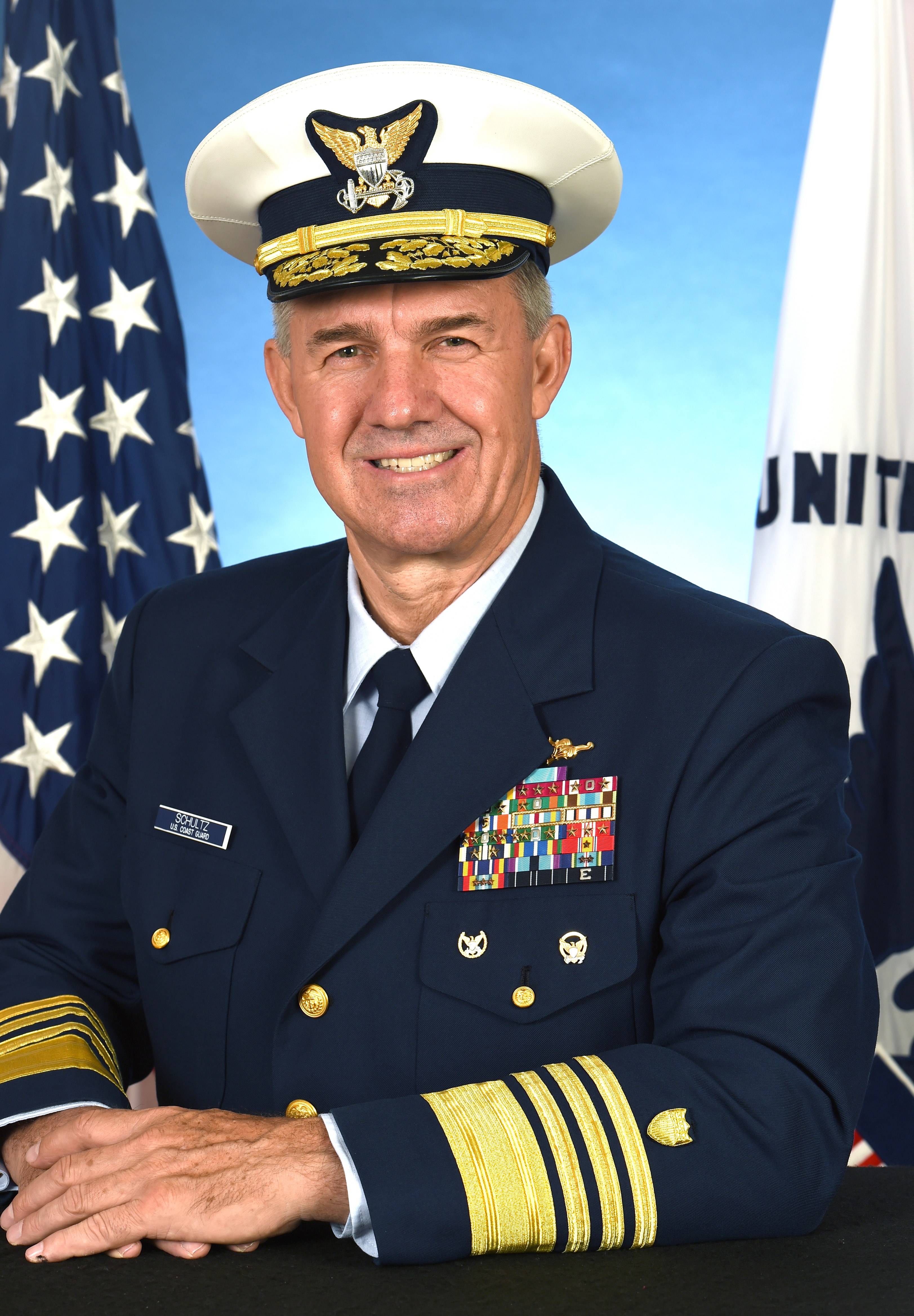 Commandant of the Coast Guard Schultz